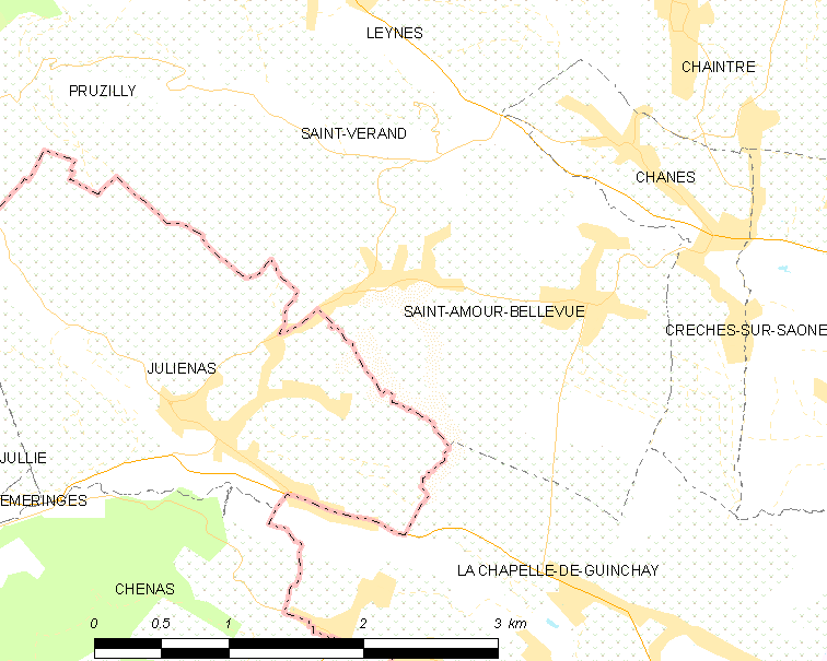 Map of French municipality